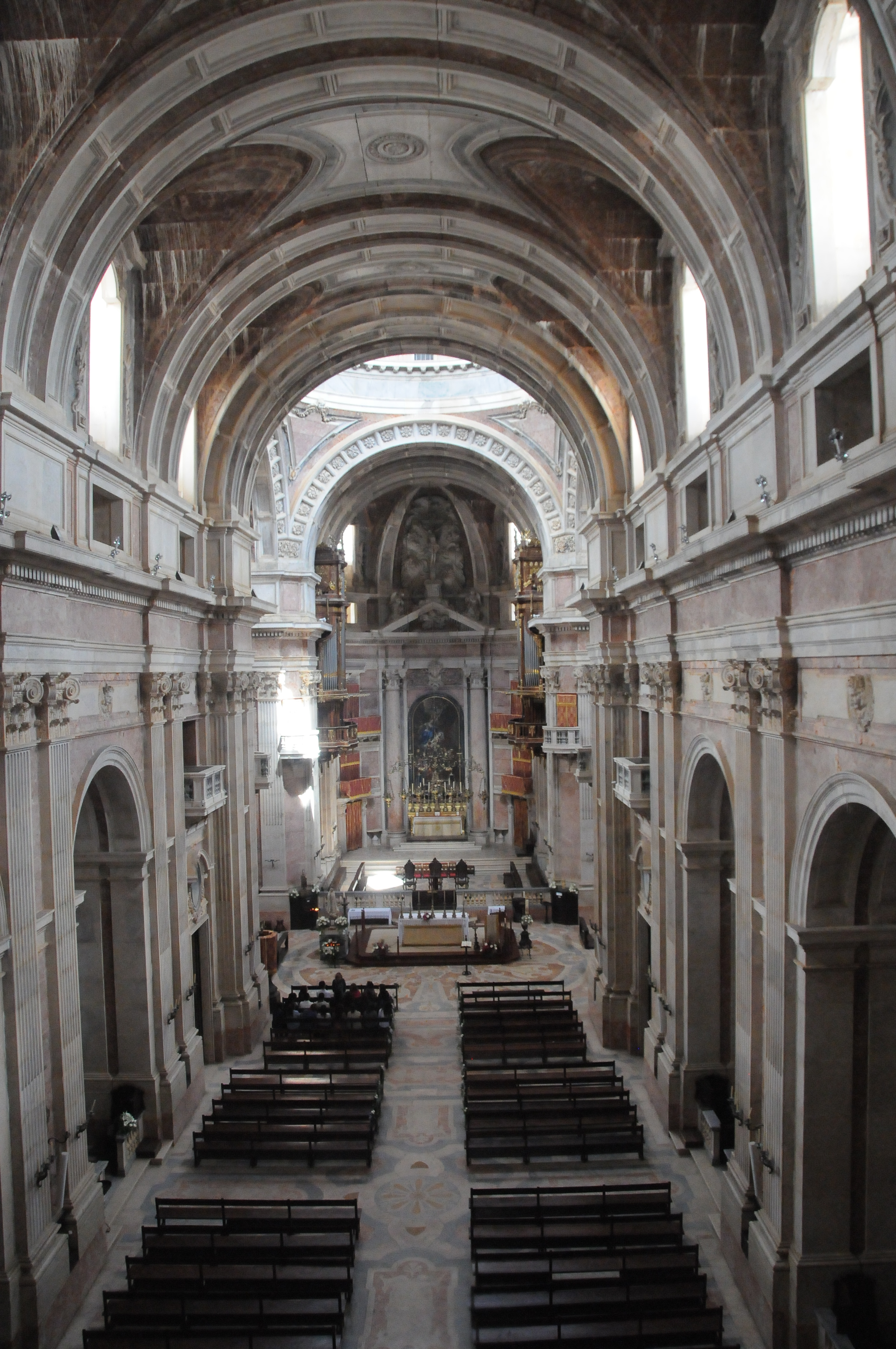 Mafra National Palace, in Mafra, Portugal